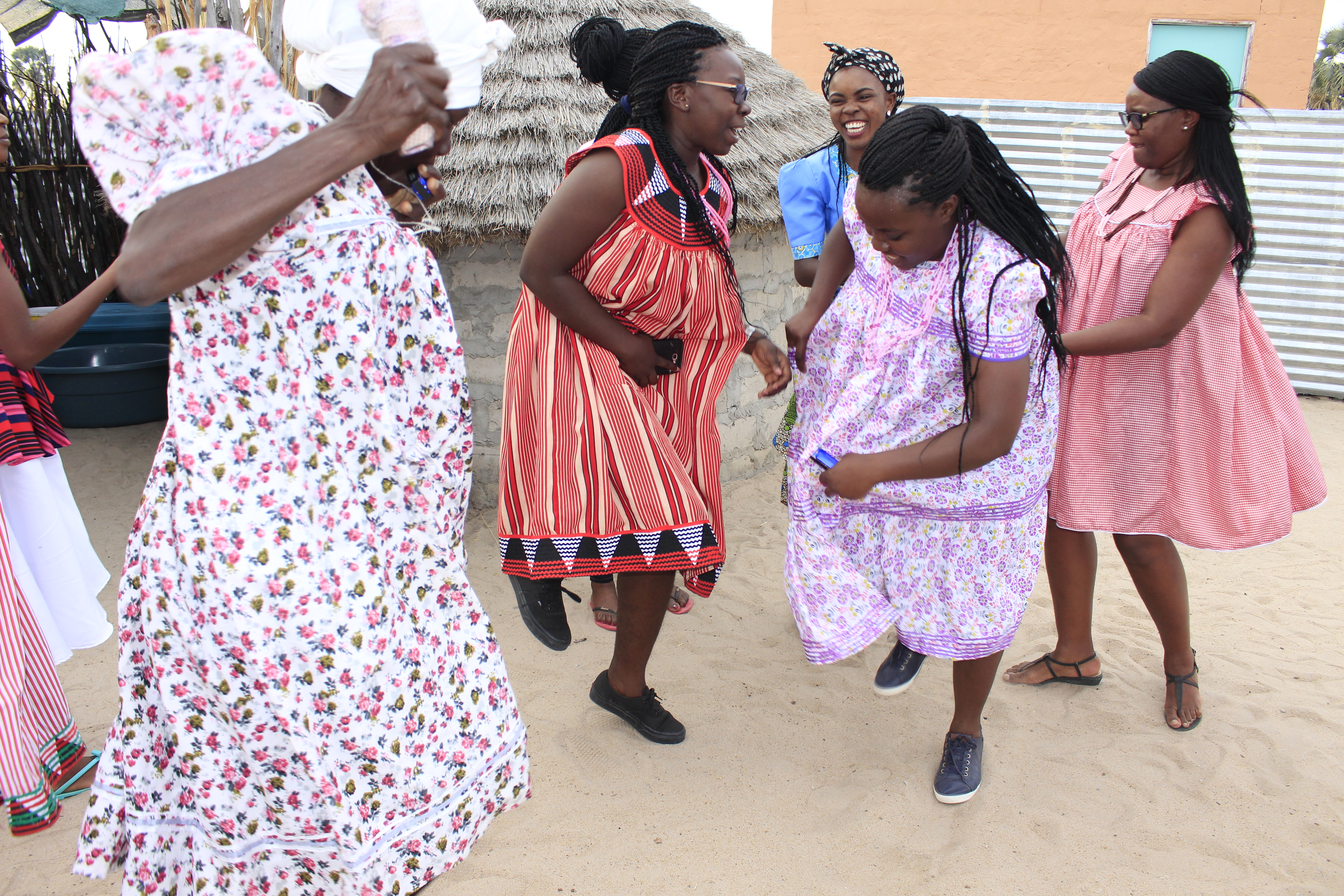 This is an image with the theme "Play" from: Namibia